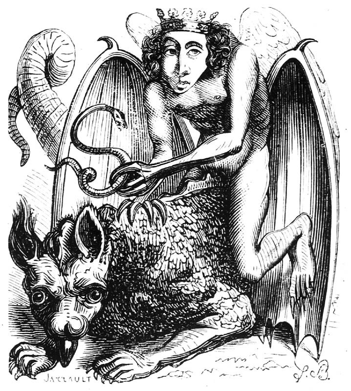 Astaroth, prince of Hell, from J.A.S. Collin de Plancy, Dictionnaire Infernal. Original illustration by Louis Breton, engraved by M. Jarrault.